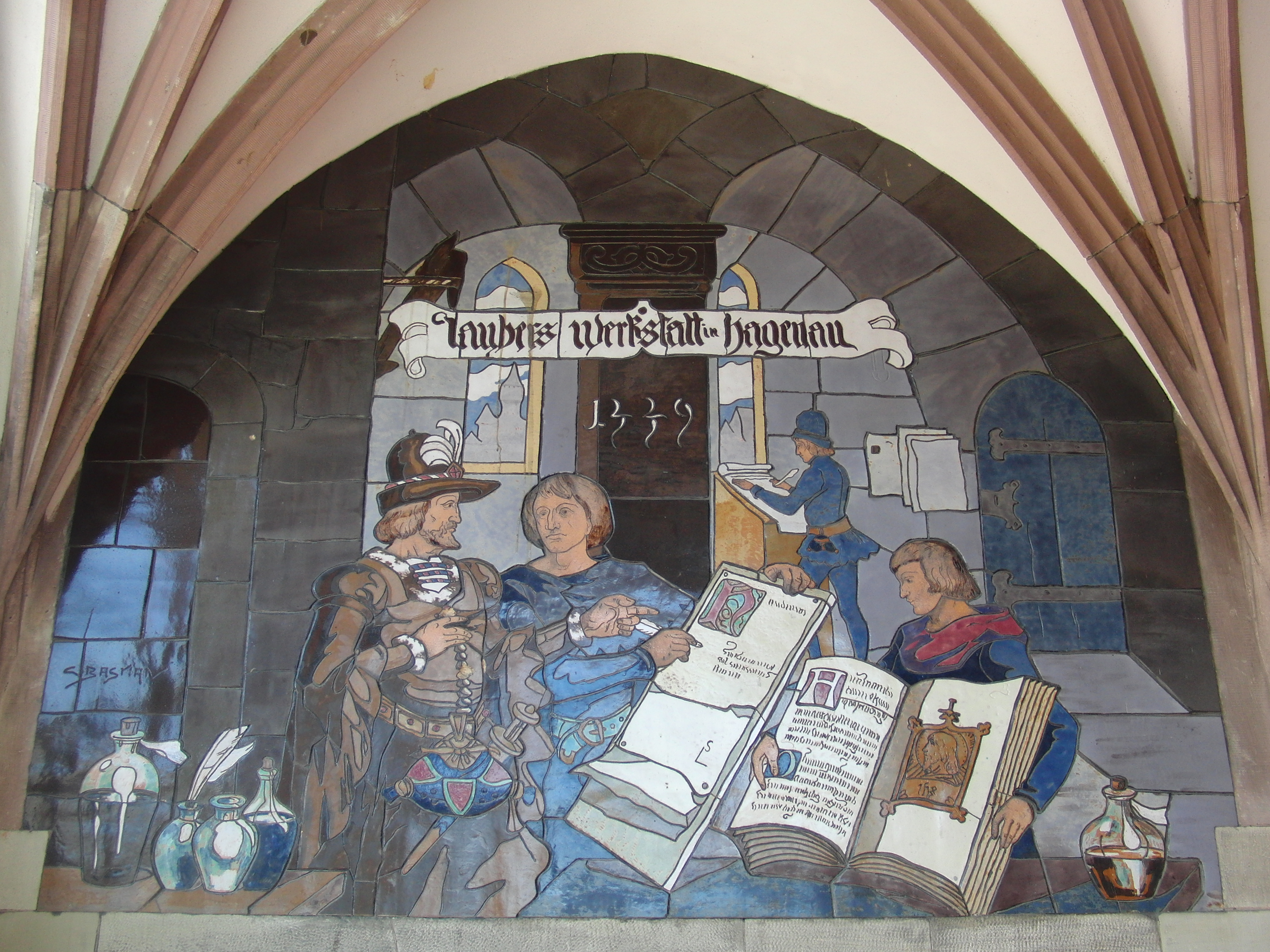 Mosaic after Léo Schnug, "The Workshop of Diebold Lauber"